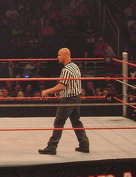 Cropped version of File:Cybersunday-mainevent.jpg to get a better view of Stone Cold Steve Austin as the Special Guest referee.